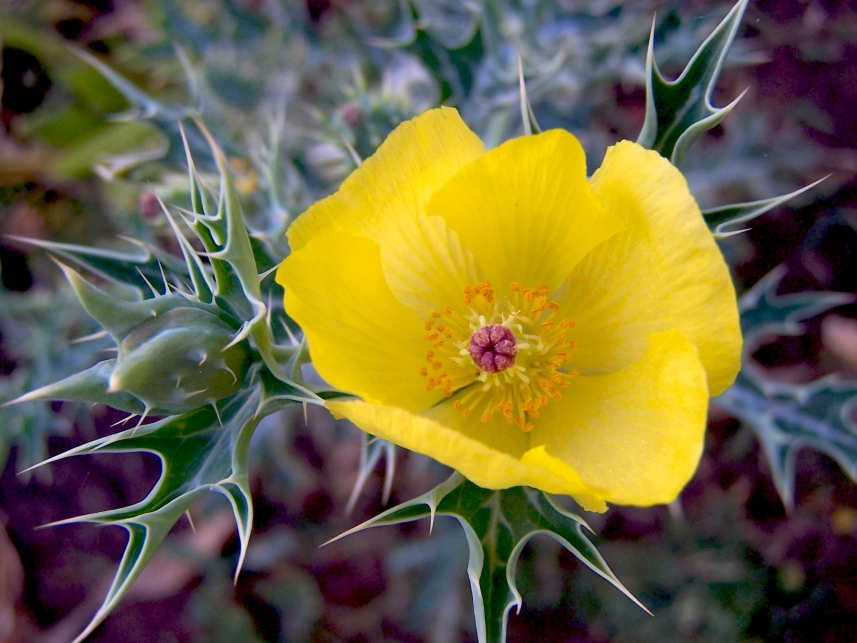 Yellow, poppy-like flower with spiky leaves: Argemone mexicana. Photographed in India.